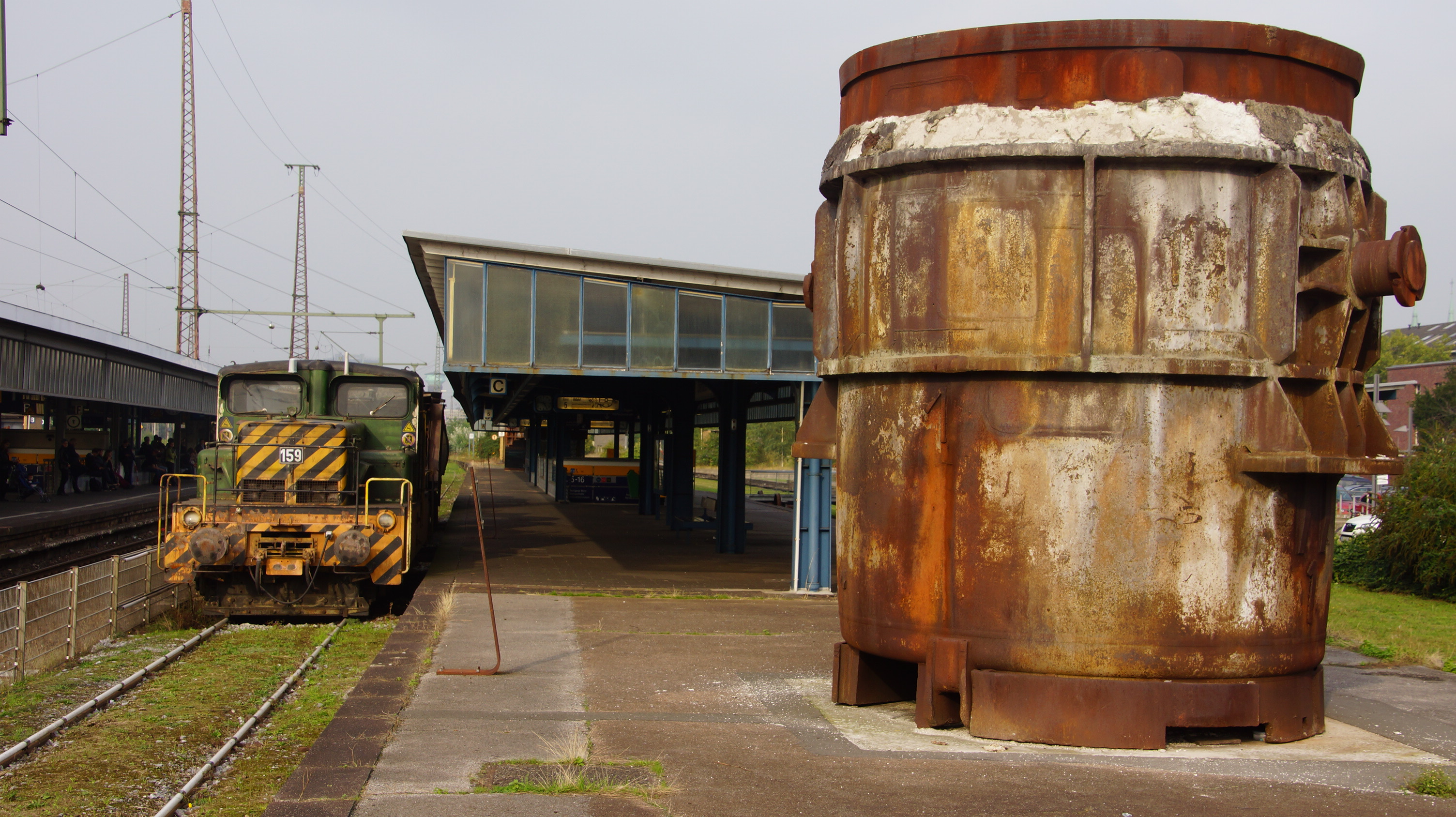 Museum platform Oberhausen (Germany) - Crucible and historic train